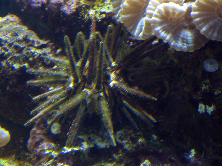 A specimen of 'Eucidaris sp.', or slate pencil urchin, an echinoderm at the National Aquarium in Baltimore. Image contrast and color enhanced.